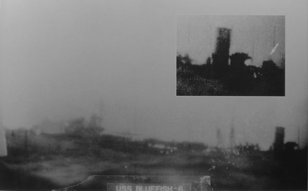 HIJMS Hayasui